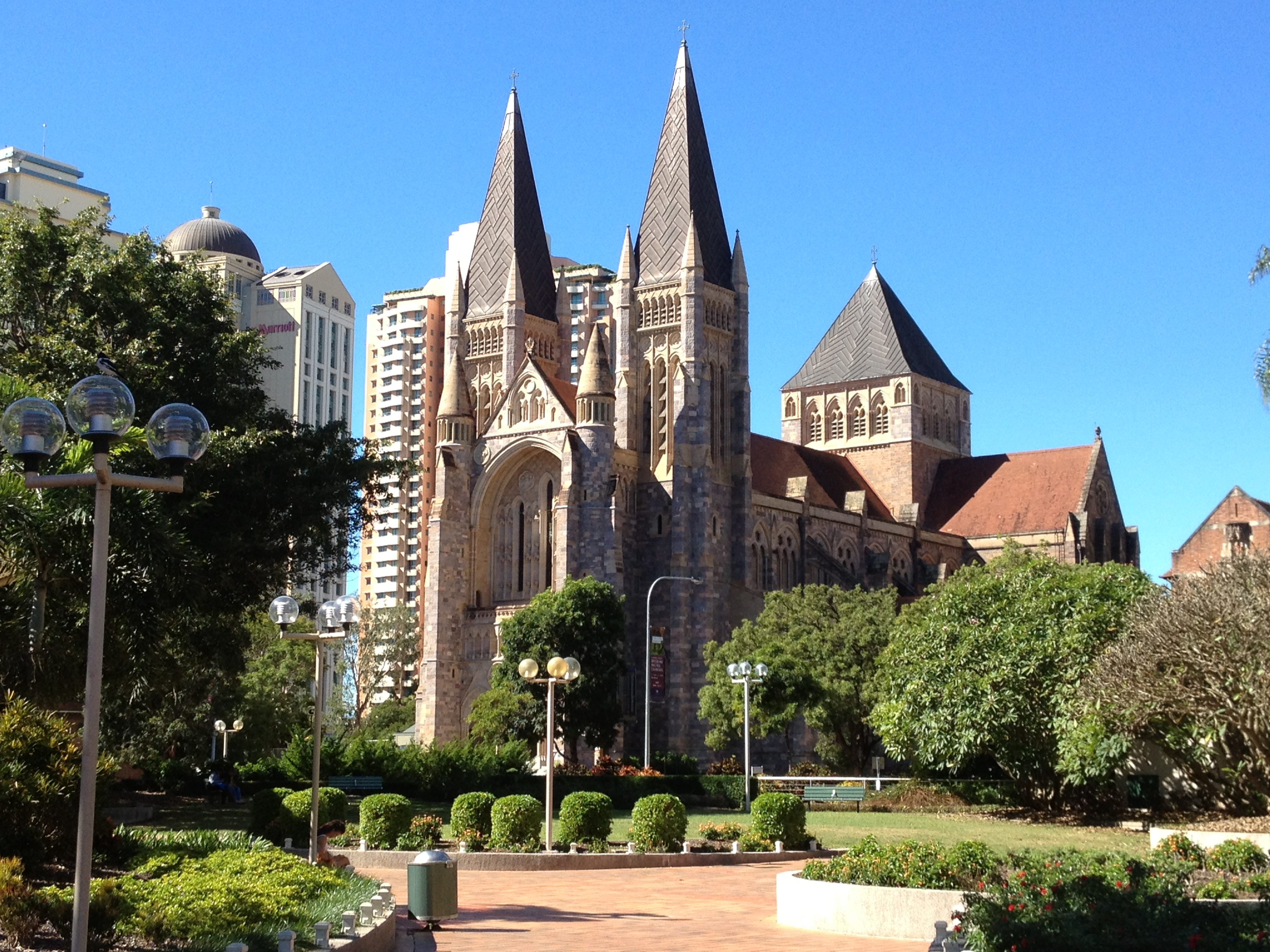 View of St John's Cathedral, Brisbane